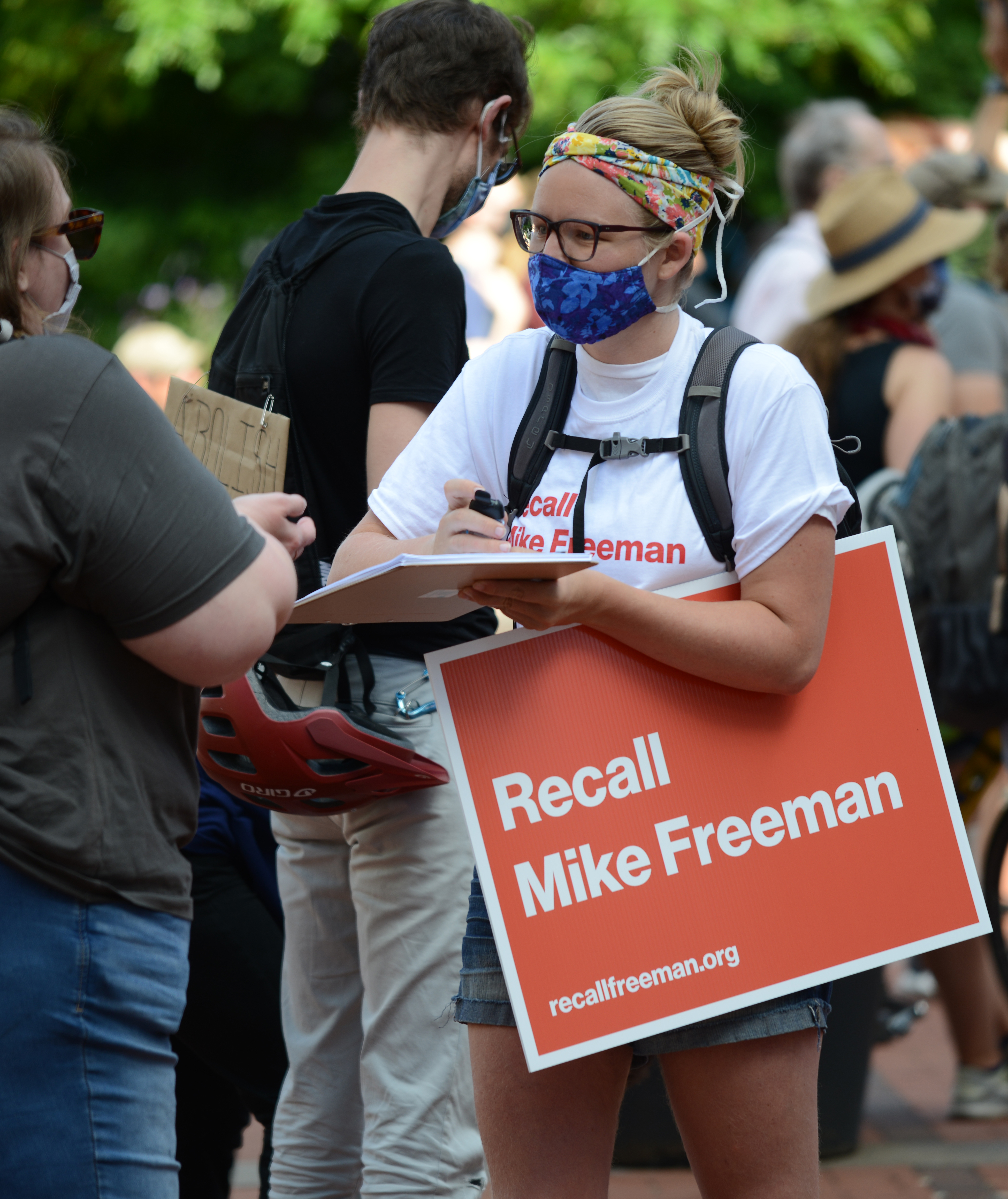 Minneapolis, Minnesota June 11, 2020 Around 1000 people gathered at the Hennepin County Government Building to demand justice for George Floyd. On May 25, Minneapolis Police officers arrested George Floyd, handcuffed him, then put a knee on his neck as he said he wasn't able to breath. George Floyd went unconscious with the knee on his neck despite pleas from bystanders for the police to stop. George Floyd died soon after. 2020-06-11 This is licensed under the Creative Commons Attribution License. Give attribution to: Fibonacci Blue